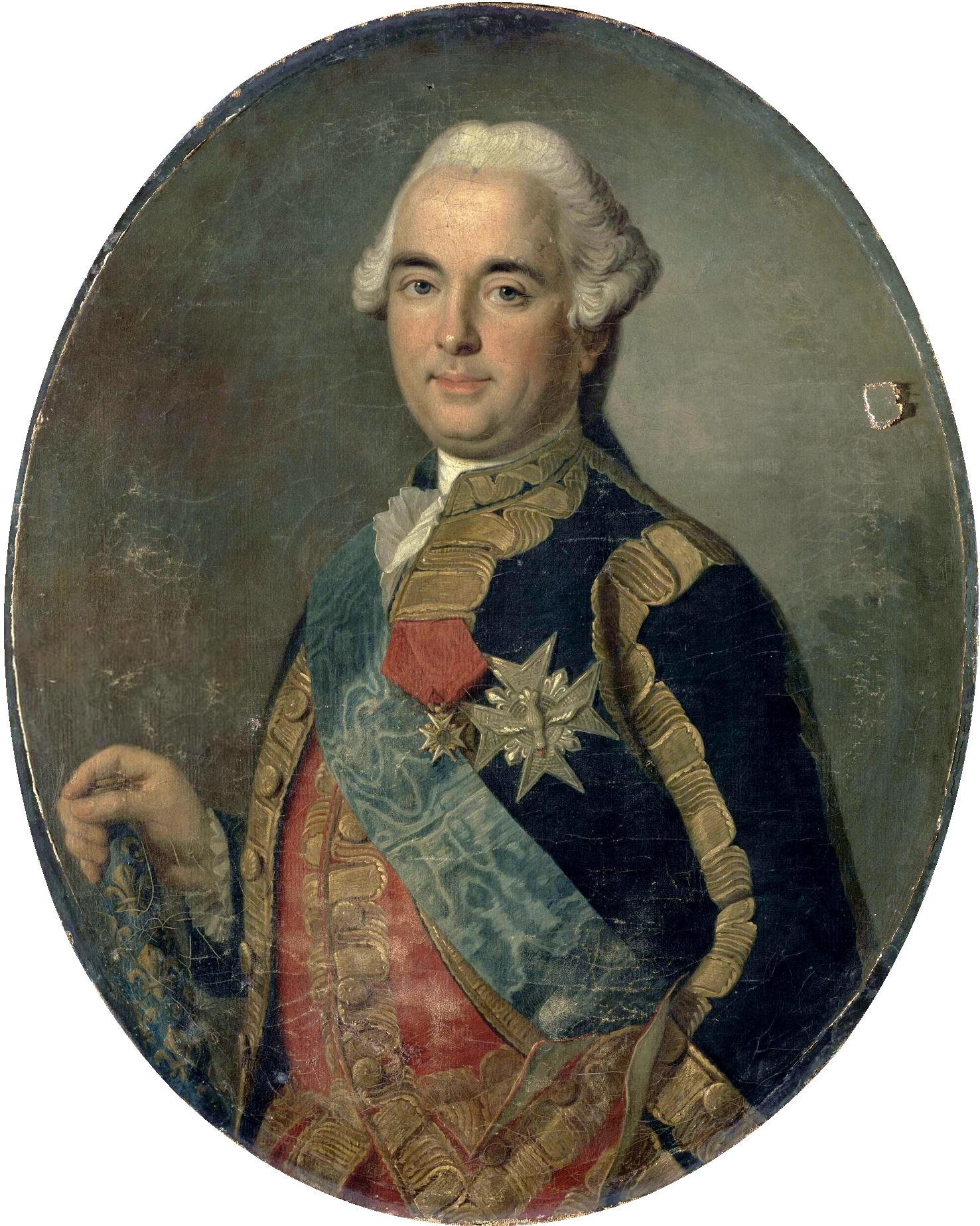 Portrait of Victor-François, 2nd duc de Broglie (1718-1804)